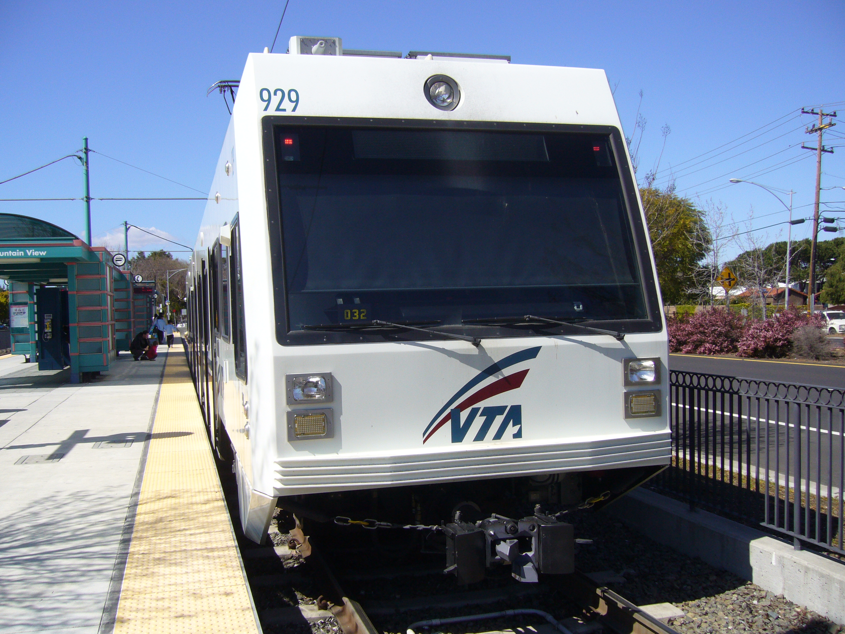 Sppearance of VTA Light Rail.